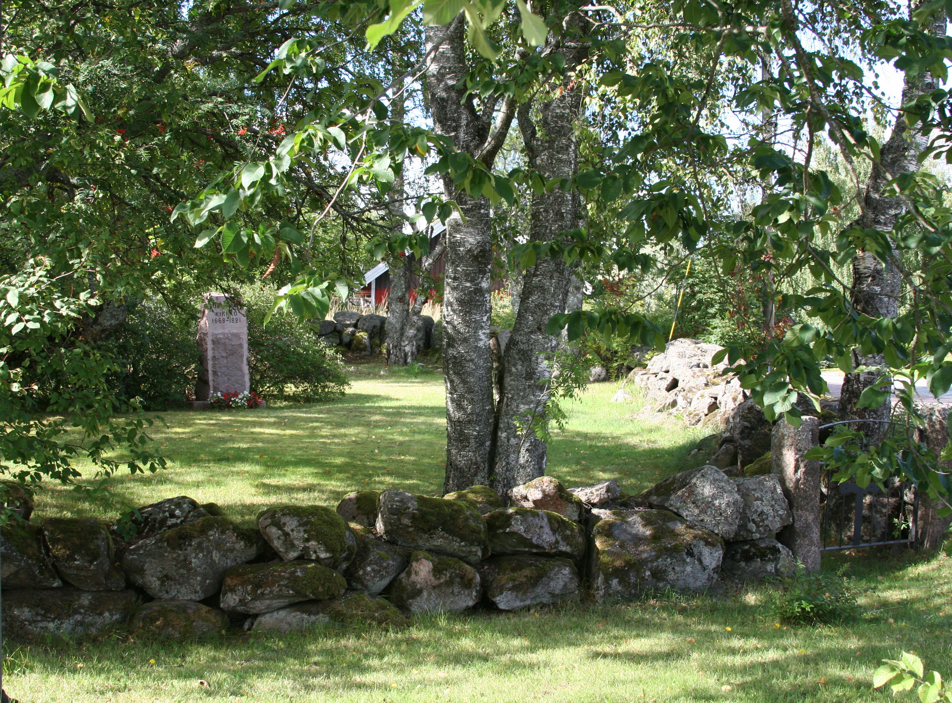 Oripää, Finland. The site of former Oripää church in 1668-1821.